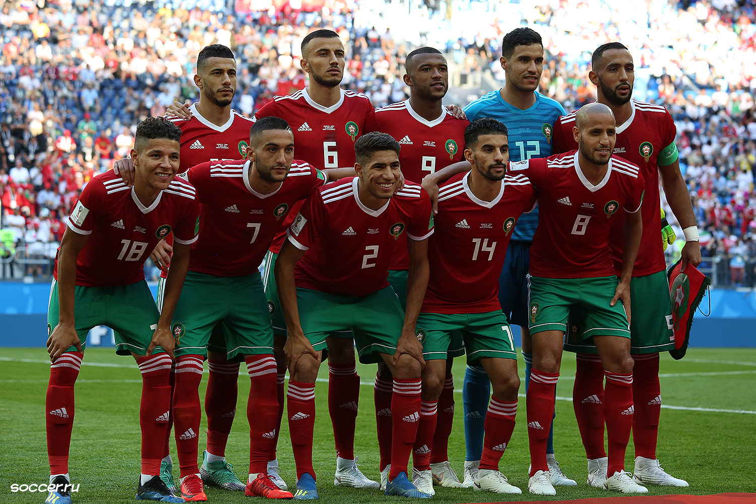 Iran-Morocco match, 2018 FIFA World Cup